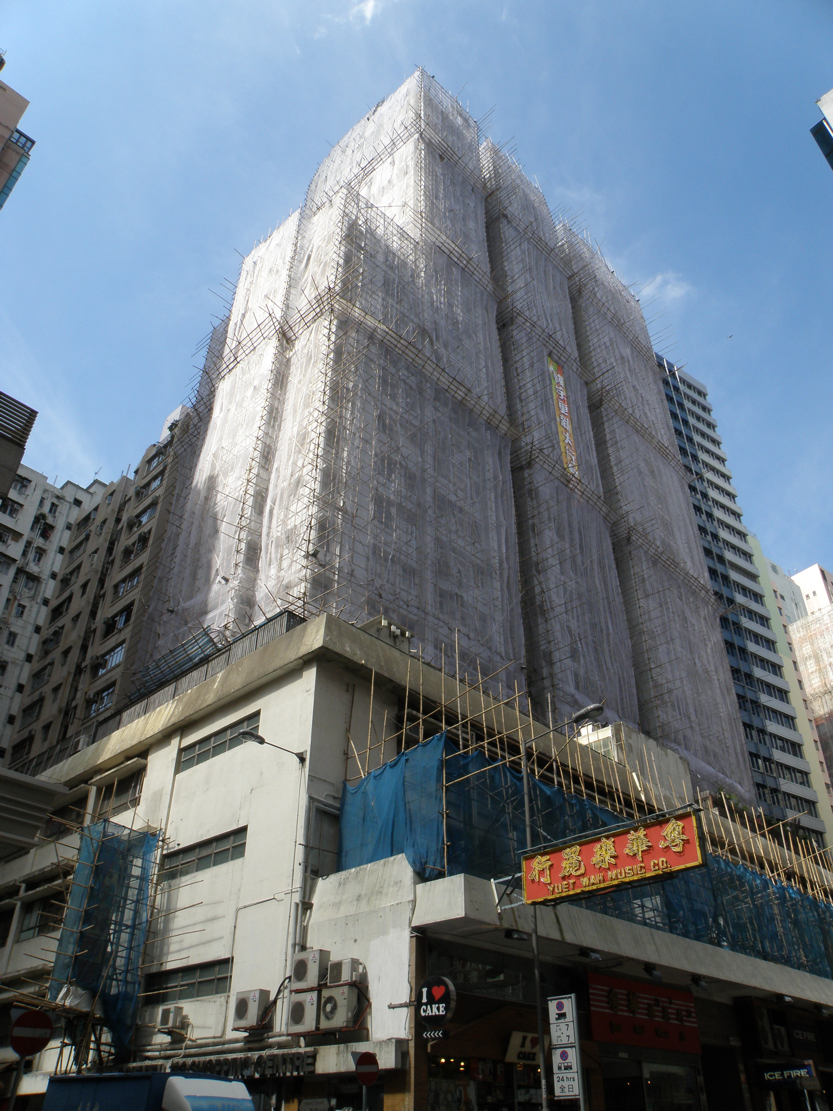 Block B, C and D of Kwong Sang Hong Building, Wan Chai, Hong Kong.